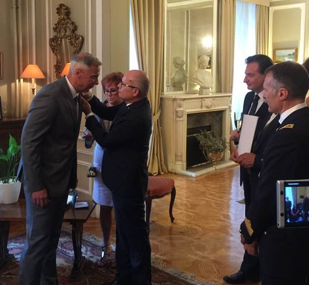 Greek professional diver Aristotelis Zervoudis receiving the insignia of the Cavaliere Del' Ordine della Stella d' Italia